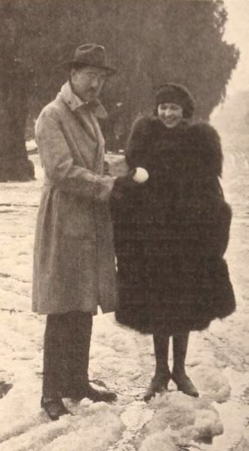 Following an unusual winter snowfall in Los Angeles, director William Beaudine and actress Alice Maison check out its screen possibilities, on page 34 of the February 26, 1921 Exhibitors Herald.